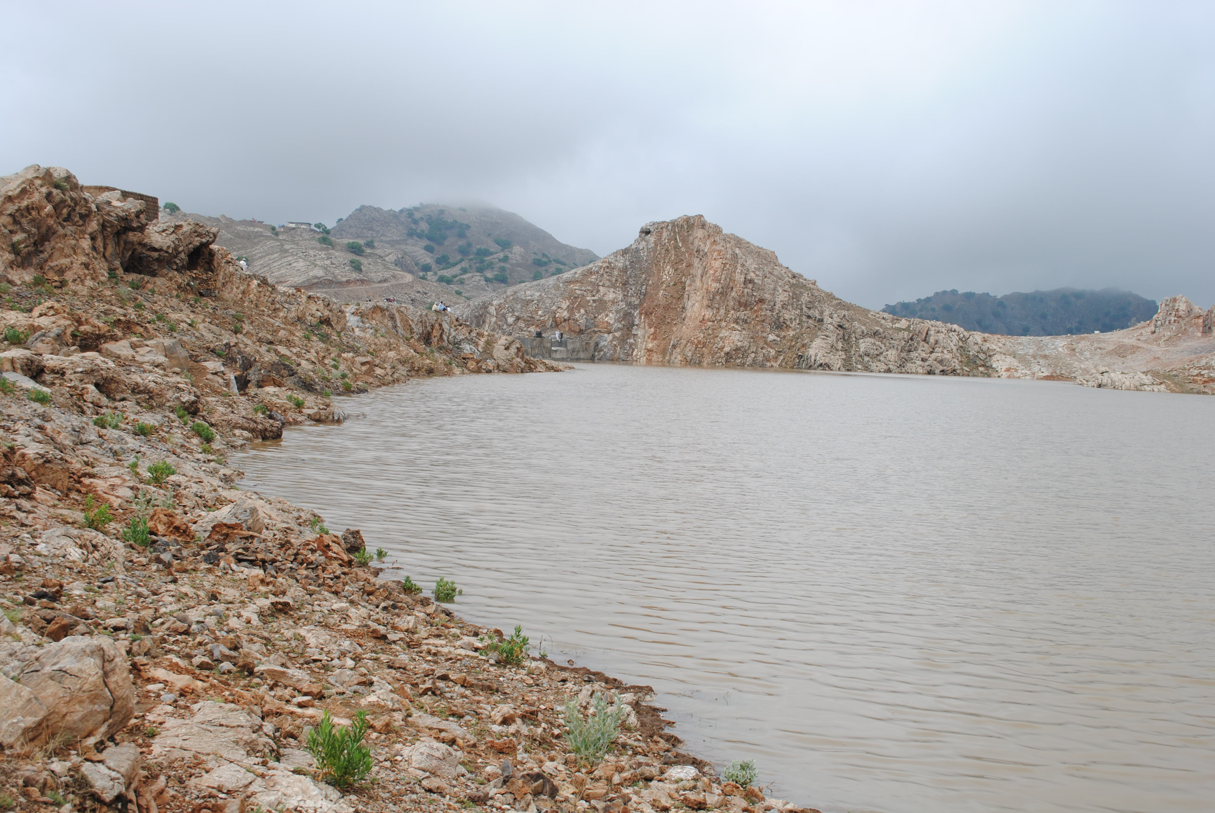 Yousaf Khell Small Dam Ghallanai, Mohmand Agency